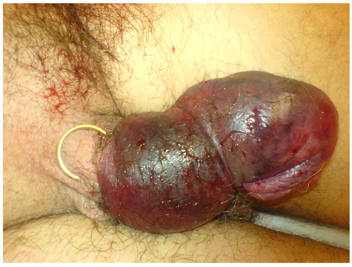 Penile strangulation with a wedding ring. The ring was removed by a ring cutter.